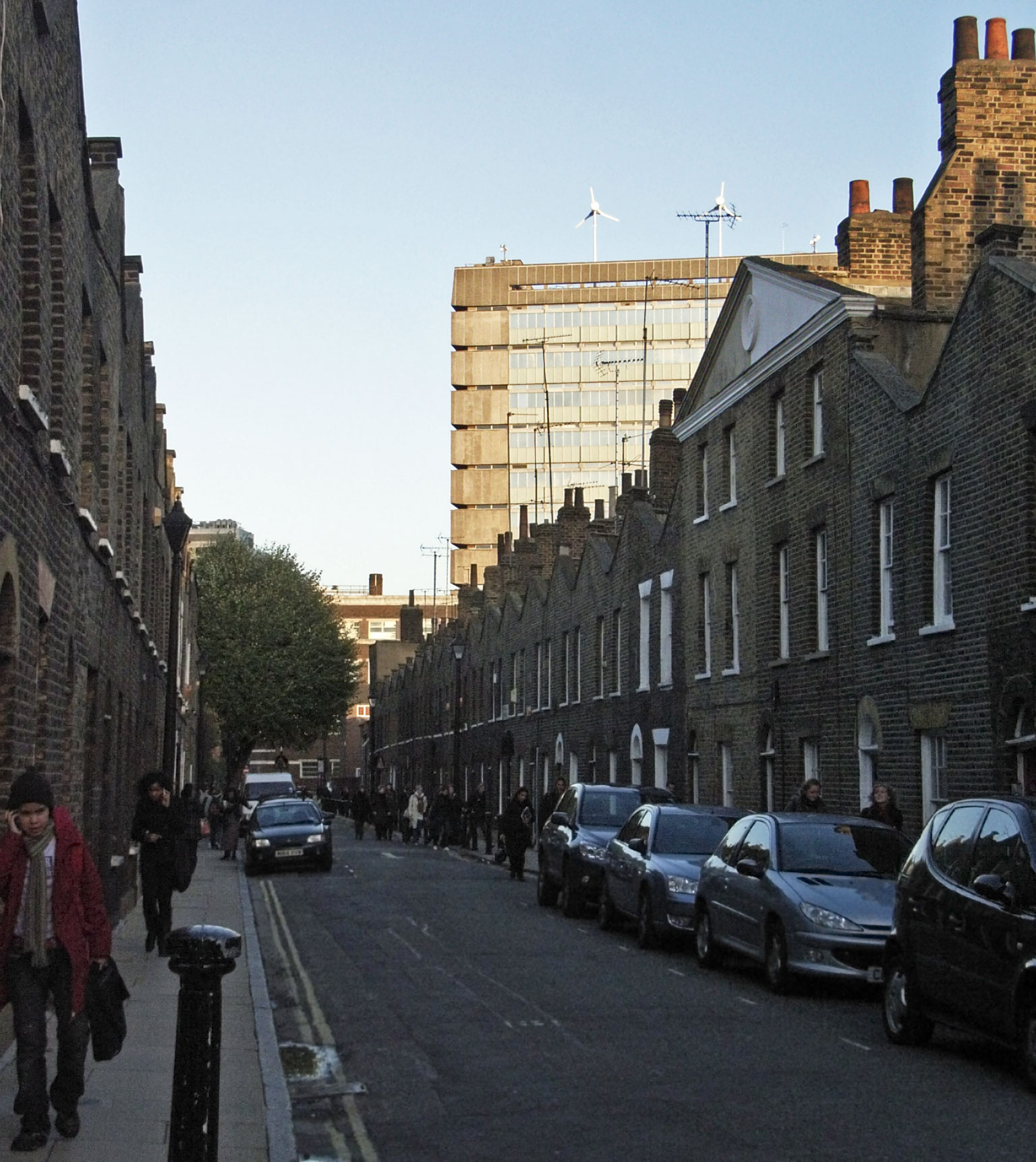 old terraces in Southwark, rush hour trickle, and wind turbines